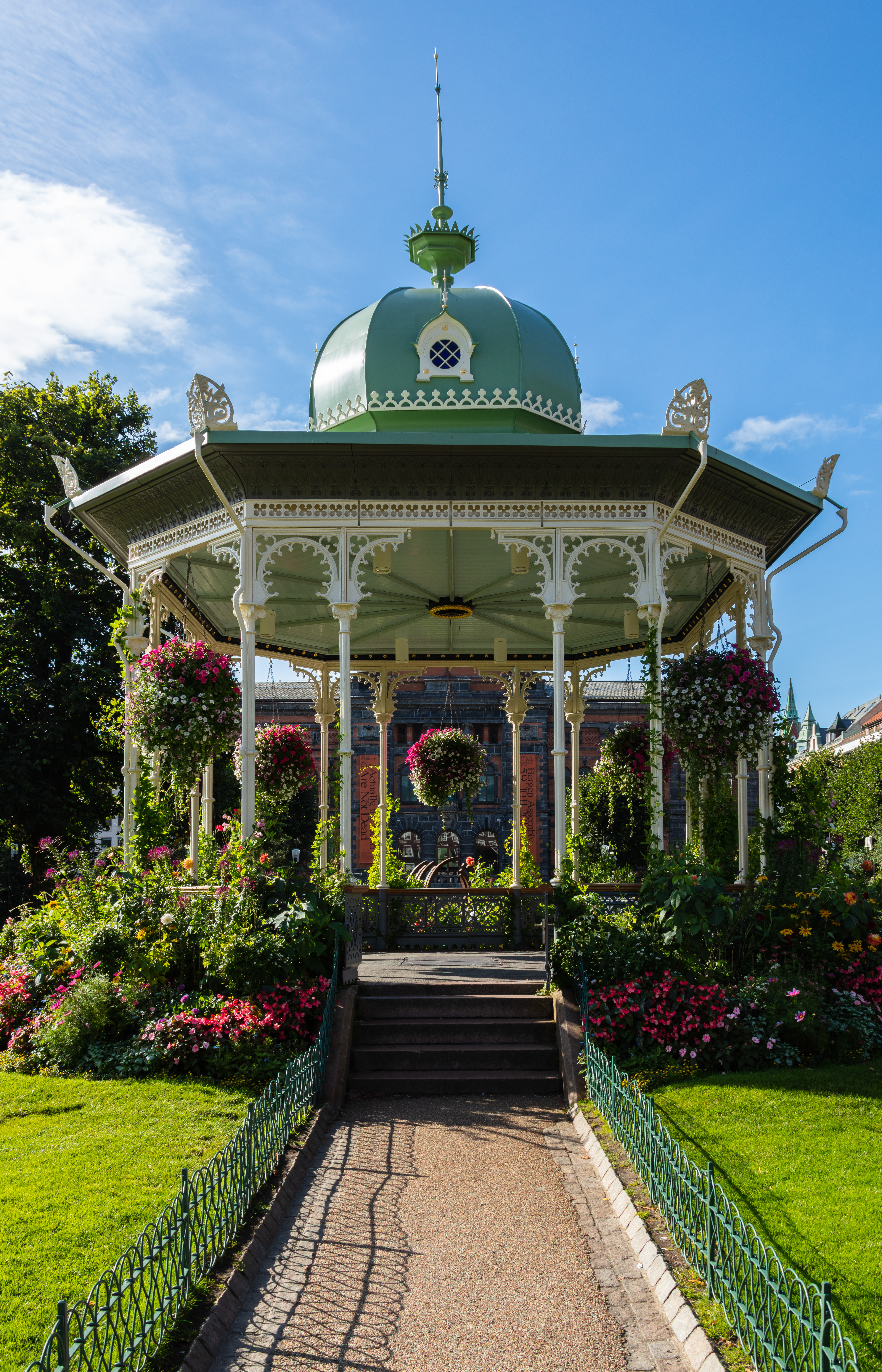 Musikkpaviljongen, Bergen, Norway